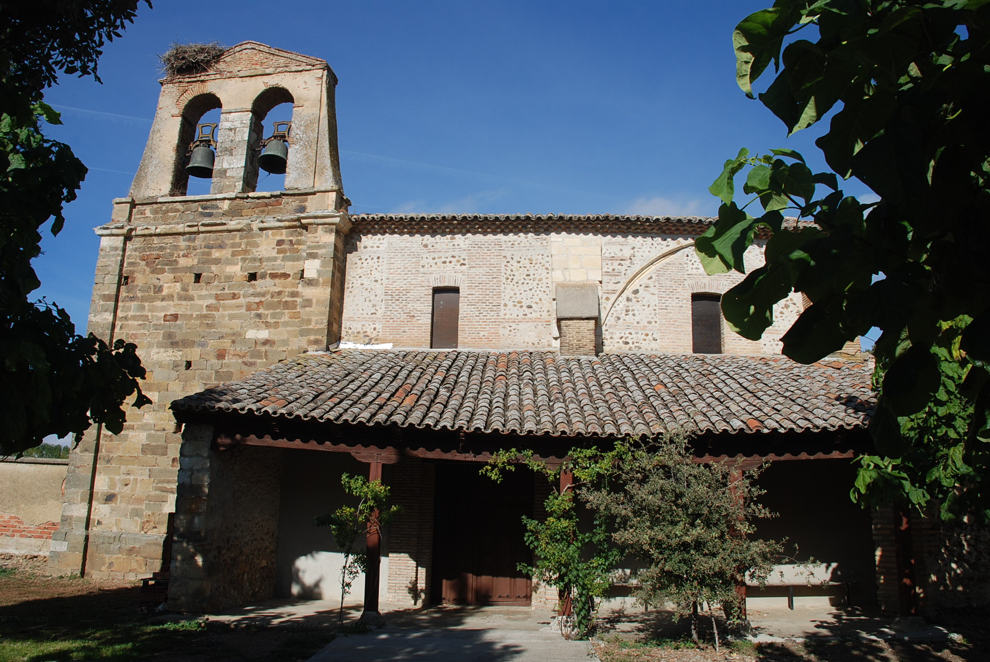 Church of San Martin de Tours in San Martín del Obispo (Palencia, Castile and León).